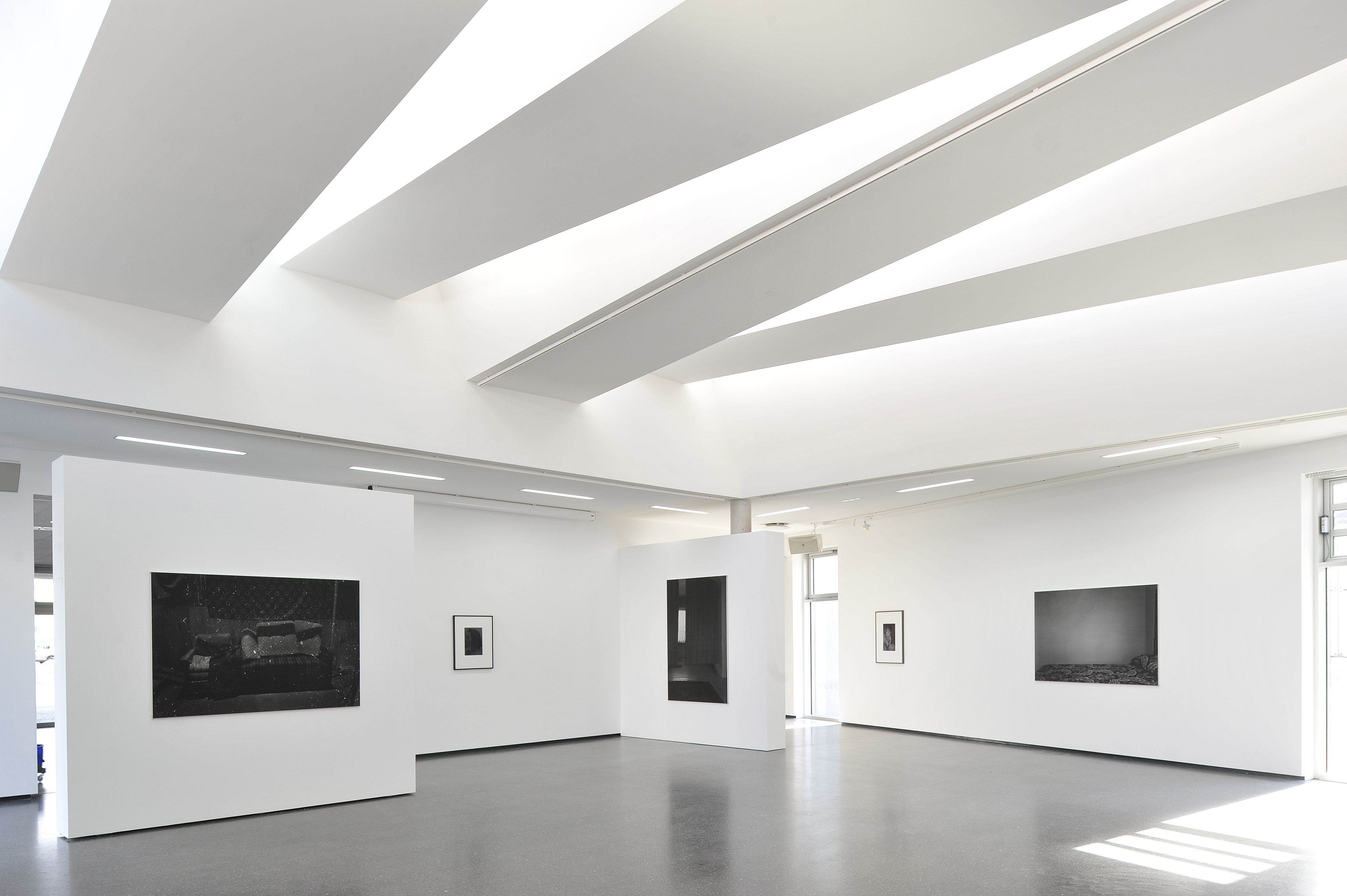 Interior View of the Fotohof gallery